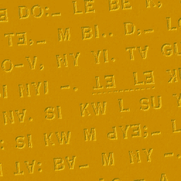 Sample of Fraser alphabet